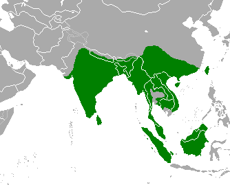 Range map of the Sambar deer (Rusa unicolor)